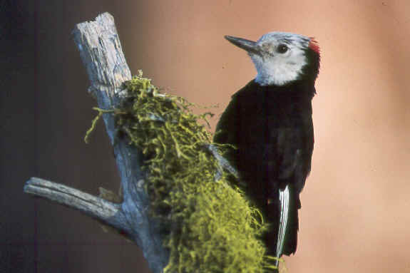 White-headed Woodpecker.